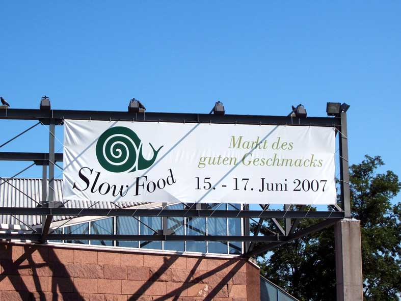 Slow Food Messe in Stuttgart 2007